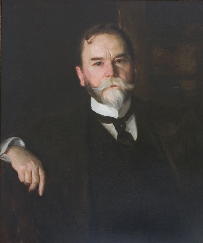 "John Hay," oil on canvas, painted by the American artist John Singer Sargent. 29 1/2 in. x 24 in. Brown University Portrait Collection, Brown University, Providence, R.I.